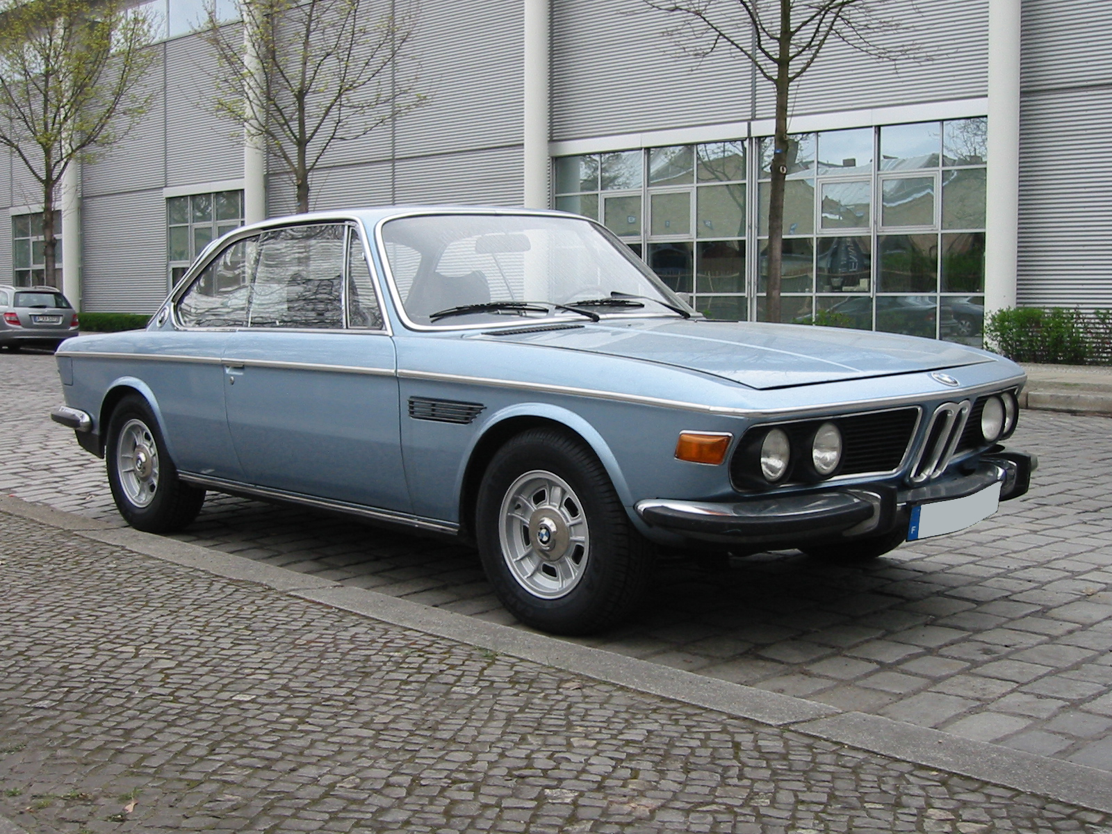 BMW 3.0 CS, spring 2010 near Meilenwerk Berlin, Germany.